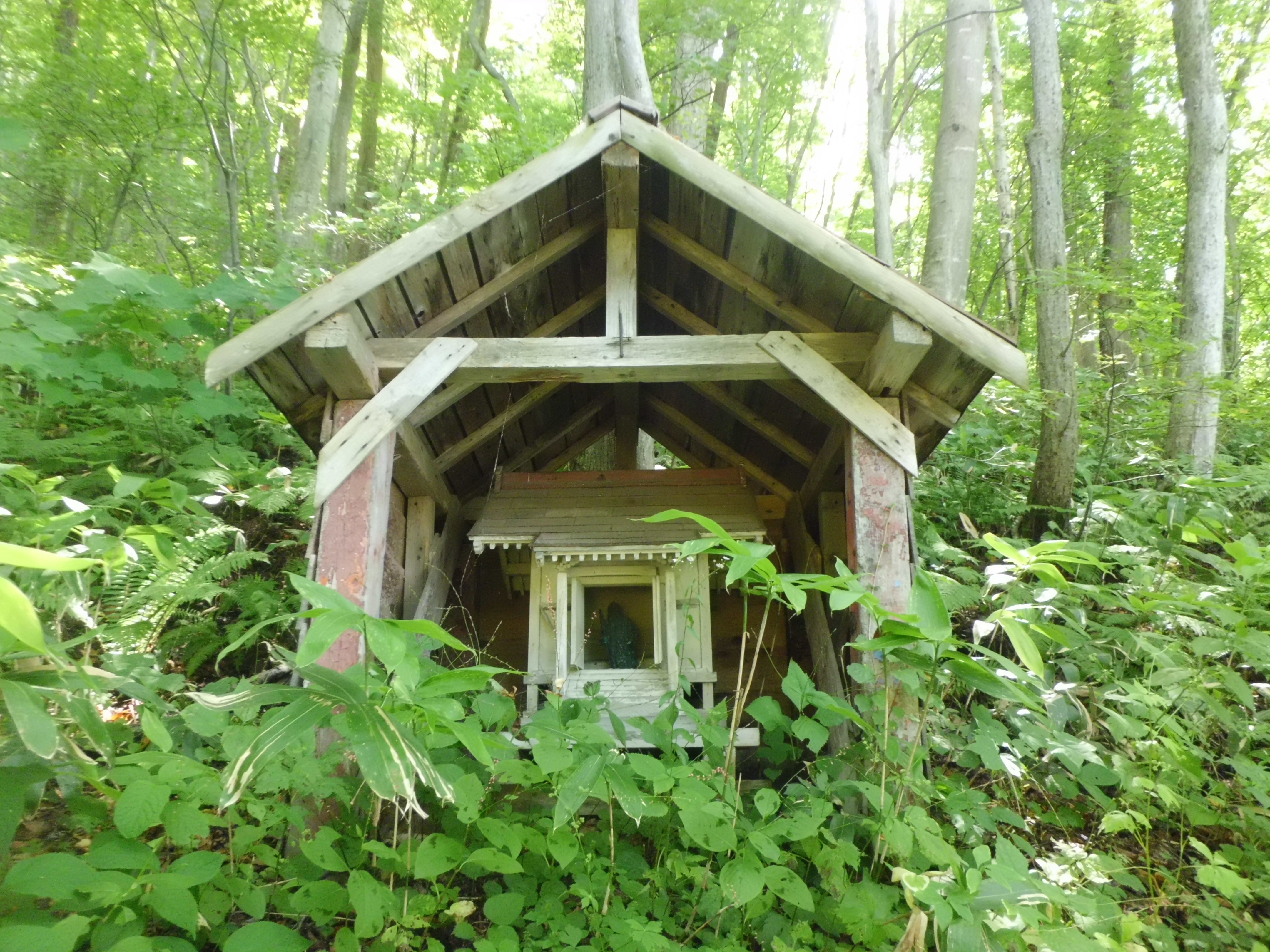 Small Shrine near Kobetsuzawa Tunnel